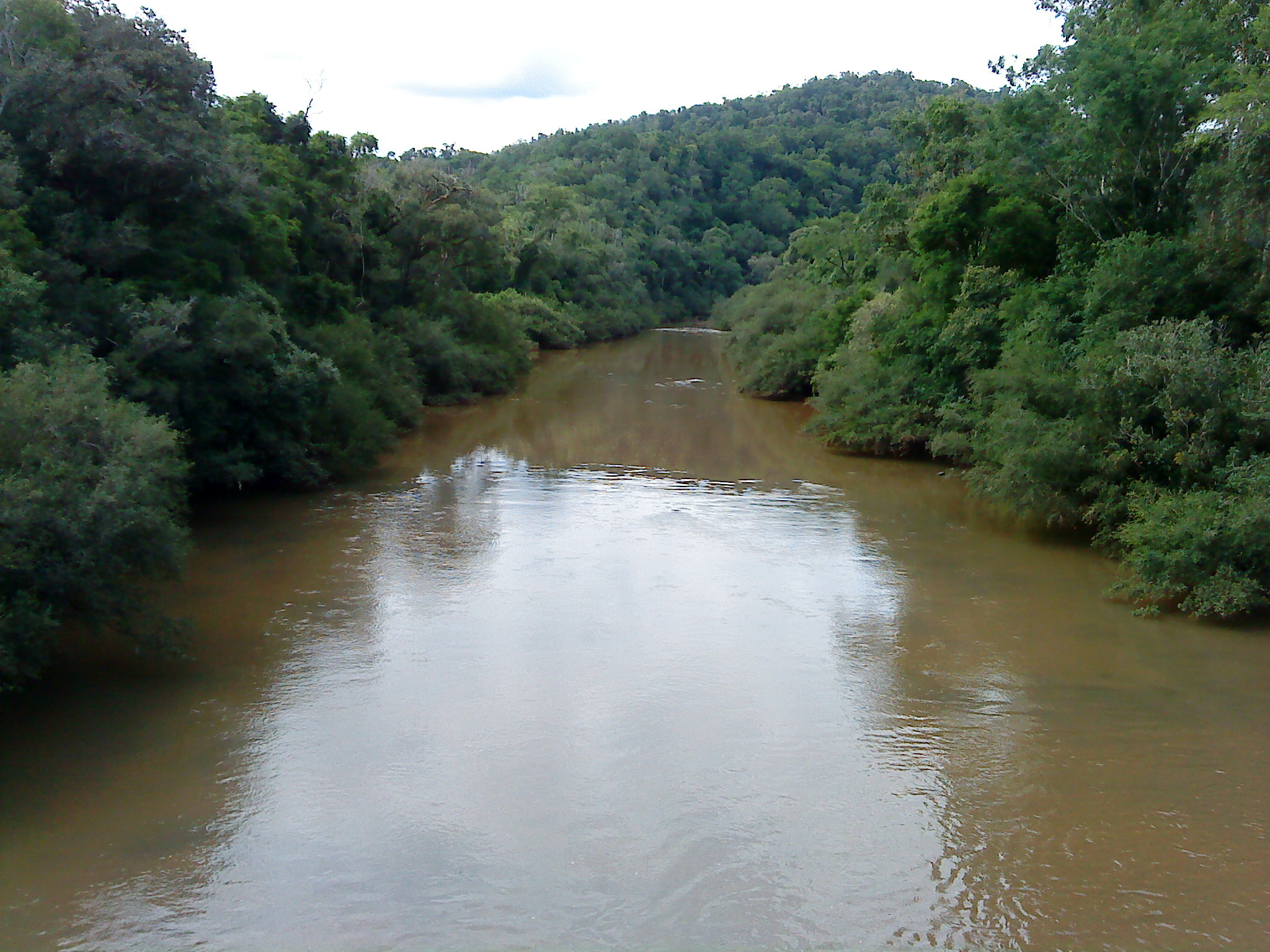 River Peperi-Guaçu in Paraíso, Santa Catarina, Brazil